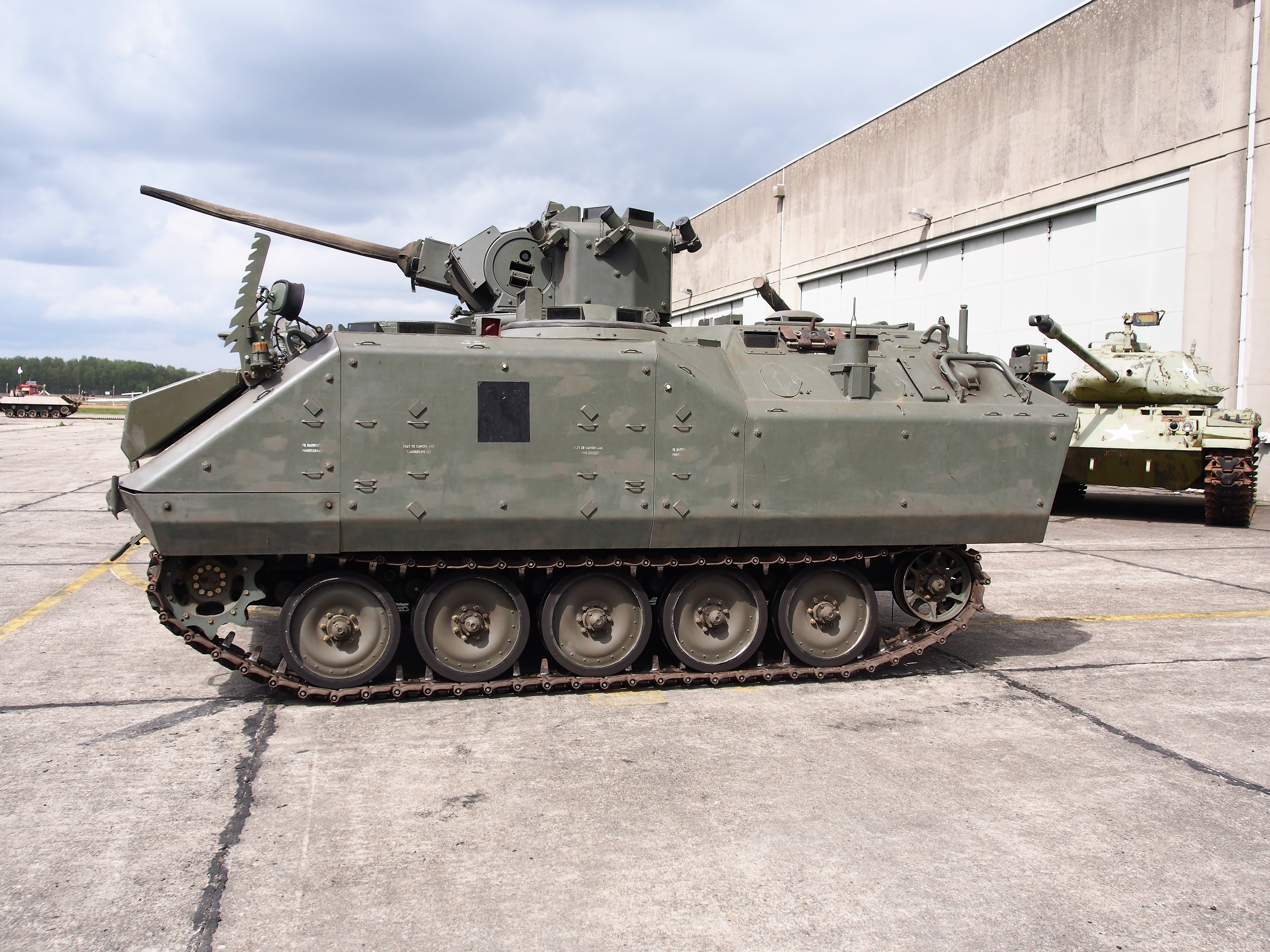 Photographed at the Gunfire Artilleriemuseum Brasschaat, Belgium.